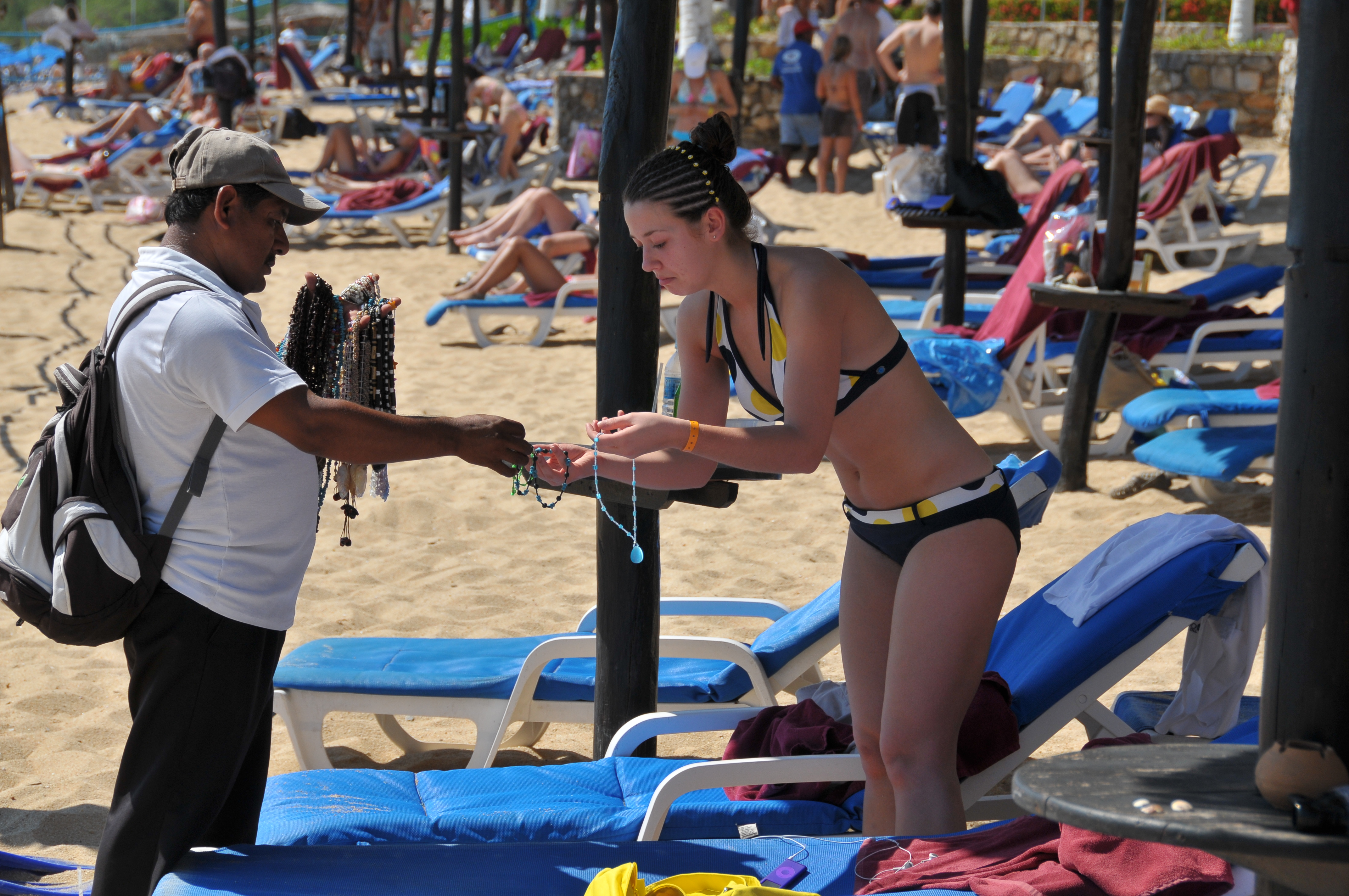 A woman wearing a bikini inspects a salesman's necklaces on a popular beach on a sunny day. Huatulco, Oaxaca, México